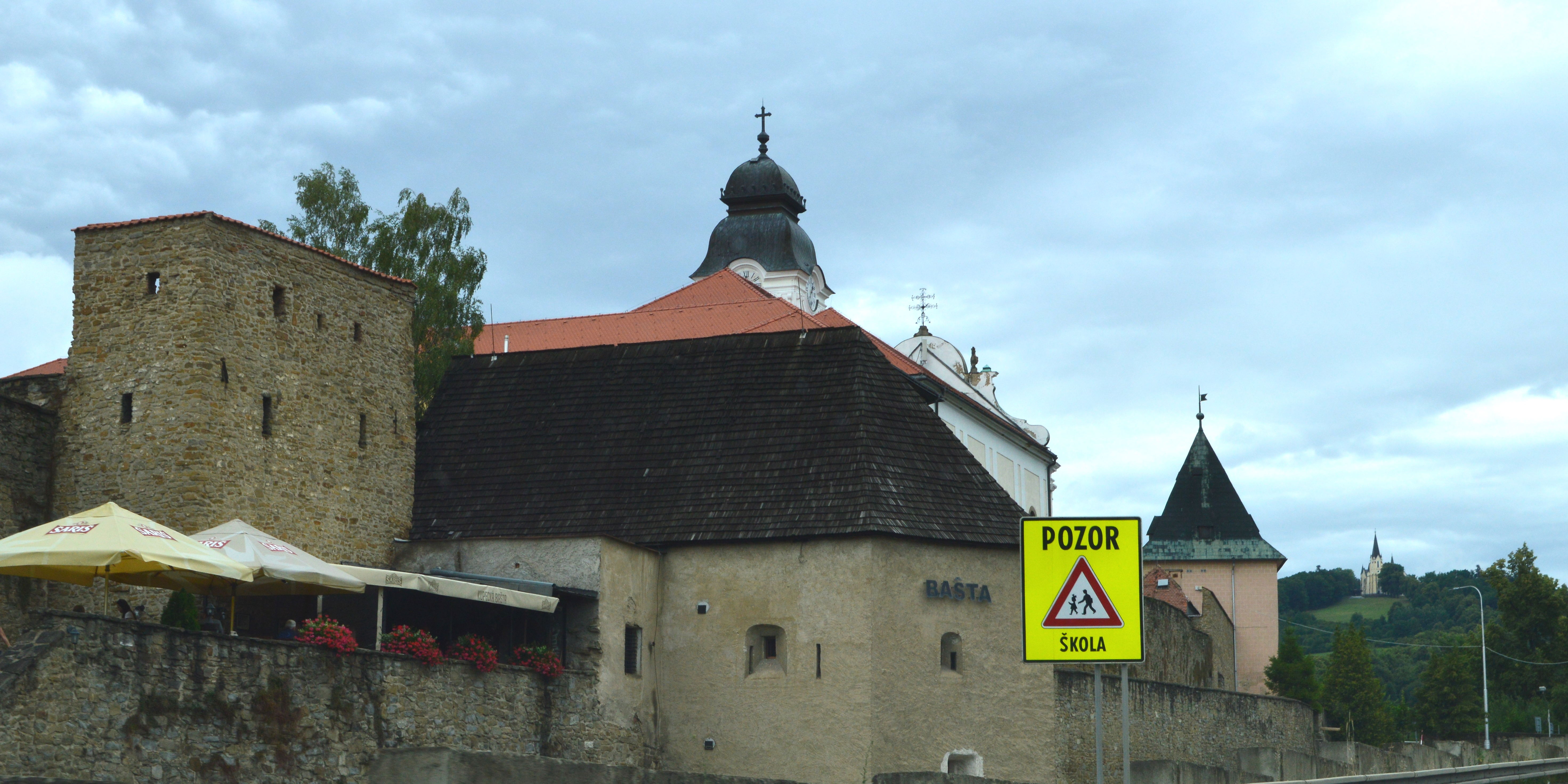 Levoča is a town in the Prešov Region of eastern Slovakia. The town has a historic center with a well preserved town wall, a Renaissance church with the highest wooden altar in the world (carved by Master Paul of Levoča) and many other Renaissance buildings. The Scotch Mist Gallery contains many photographs of historic buildings, monuments and memorials of Poland and beyond.